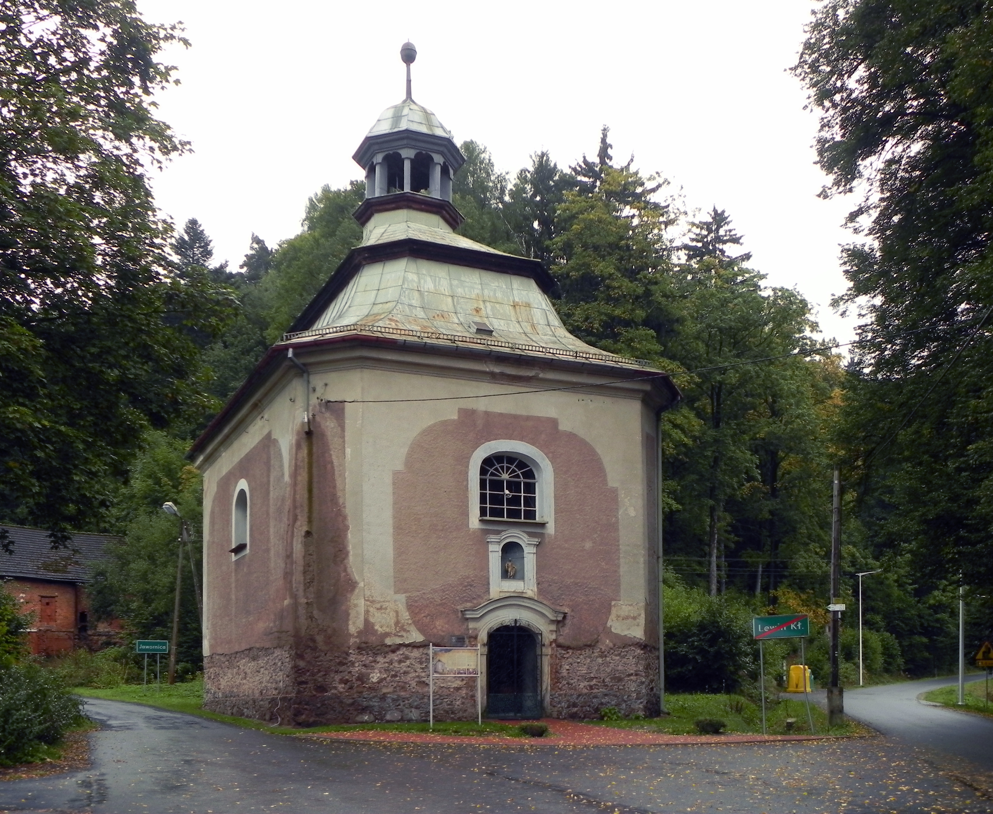 Saint John of Nepomuk chapel in Lewin Kłodzki